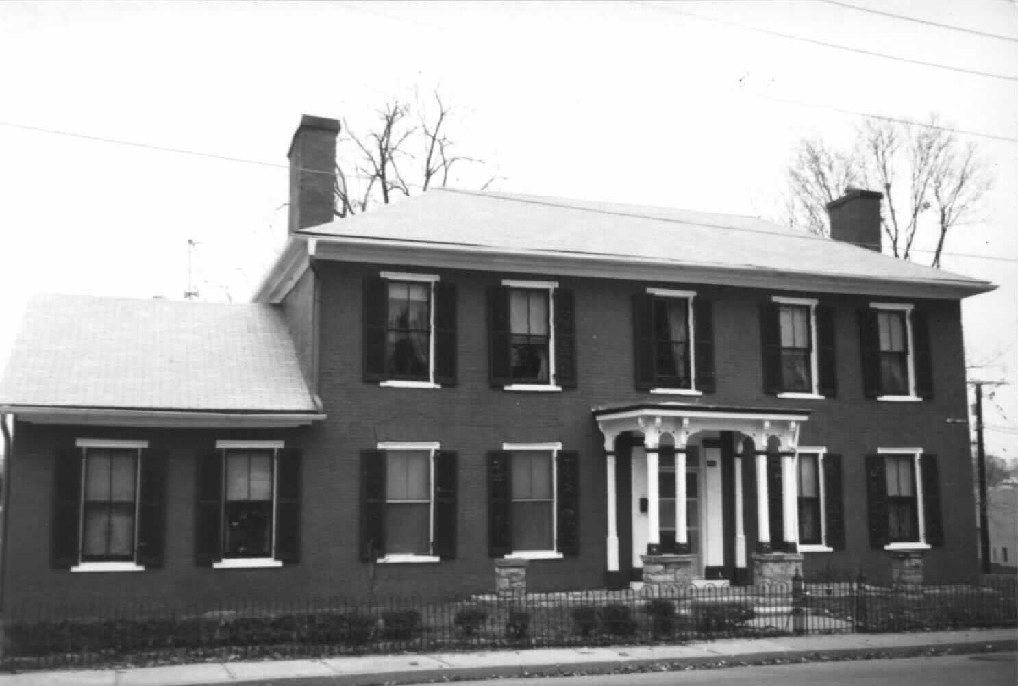 Black and white photograph of the Henry Watt House, aka Saunier House, aka Watt-Saunier House, which stood at 703 West High Street in Lexington, Kentucky. House was built circa 1818 by an unknown architect, listed on the National Register of Historic Places in 1977, included as a contributing property in the 1980 listing of the Woodward Heights Neighborhood Historic District, demolished (?) in 199? (?) (following a fire?).